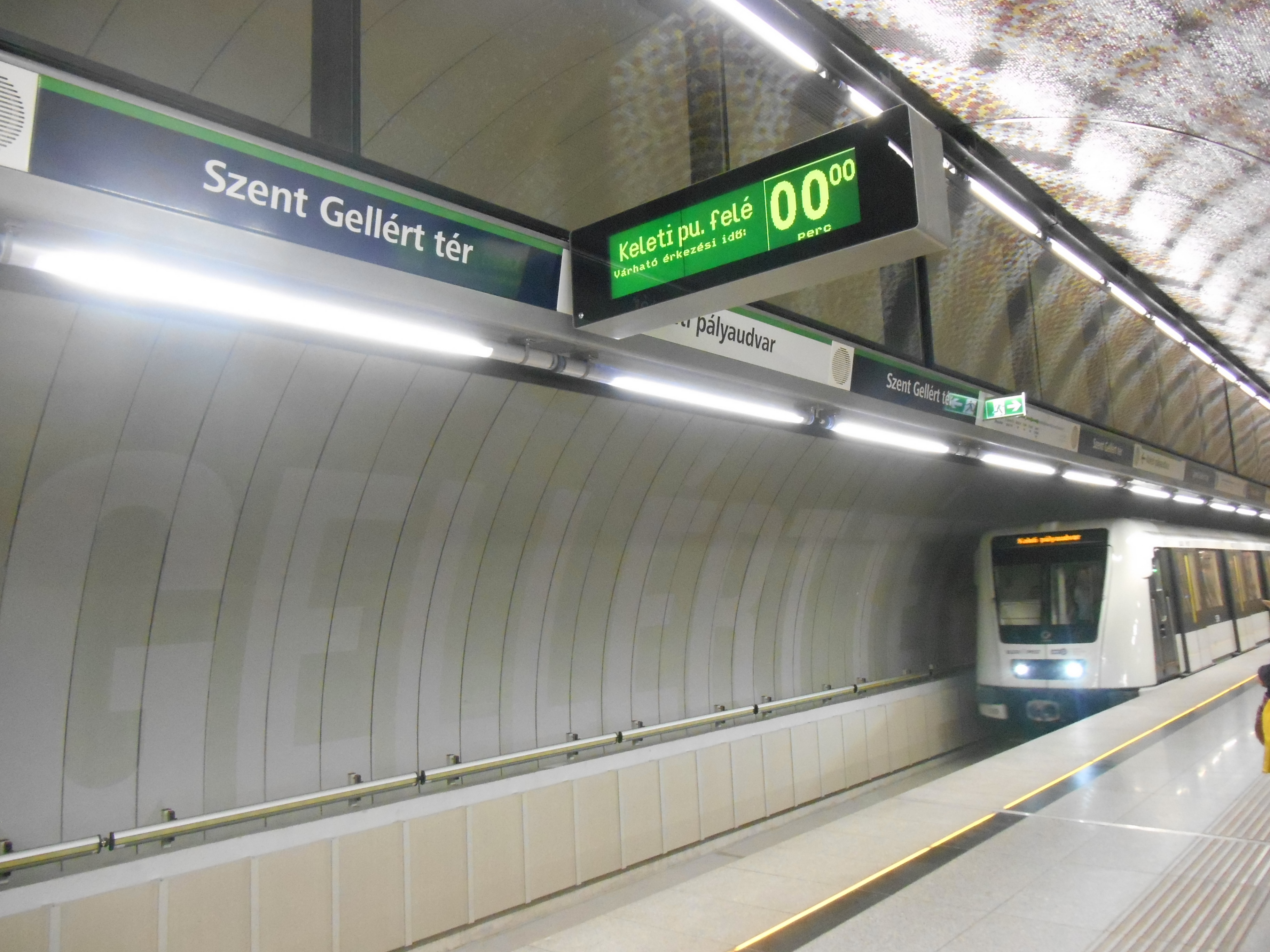 A train arriving at the new Metro 4 line